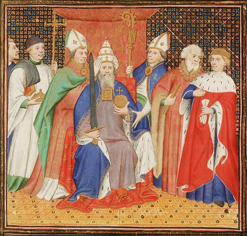 Vincent of Beauvais, Le Miroir Historial (Vol. IV) Place of origin, date: Paris, Master of the Cité des Dames (illuminator); c. 1400- 1410 Material: Vellum, ff. 401, 425x320 (254x196) mm, 2 columns, 43 lines, littera cursiva. French. Binding: 18th-century brown leather, gilt, with coat of arms of Stadtholder William V Decoration: 1 two-column miniature (185x200 mm with border decoration), 19 column miniatures (110/70x90/85 mm) with border decoration, 1 illustration in the margin (coat of arms); decorated initials with border decoration (ff. 3r, 10r, 15r, 19r, 20r, etc.) Provenance: Acquired by Philip of Cleves (d. 1528) before 1492 (coat of arms with label); purchased in 1531 from his estate by Henri III, Count of Nassau (d. 1538); by inheritance to the Princes of Orange-Nassau, the later Stadtholders at The Hague; taken in 1795 to Paris by the French occupying forces and restituted in 1816 to the KB